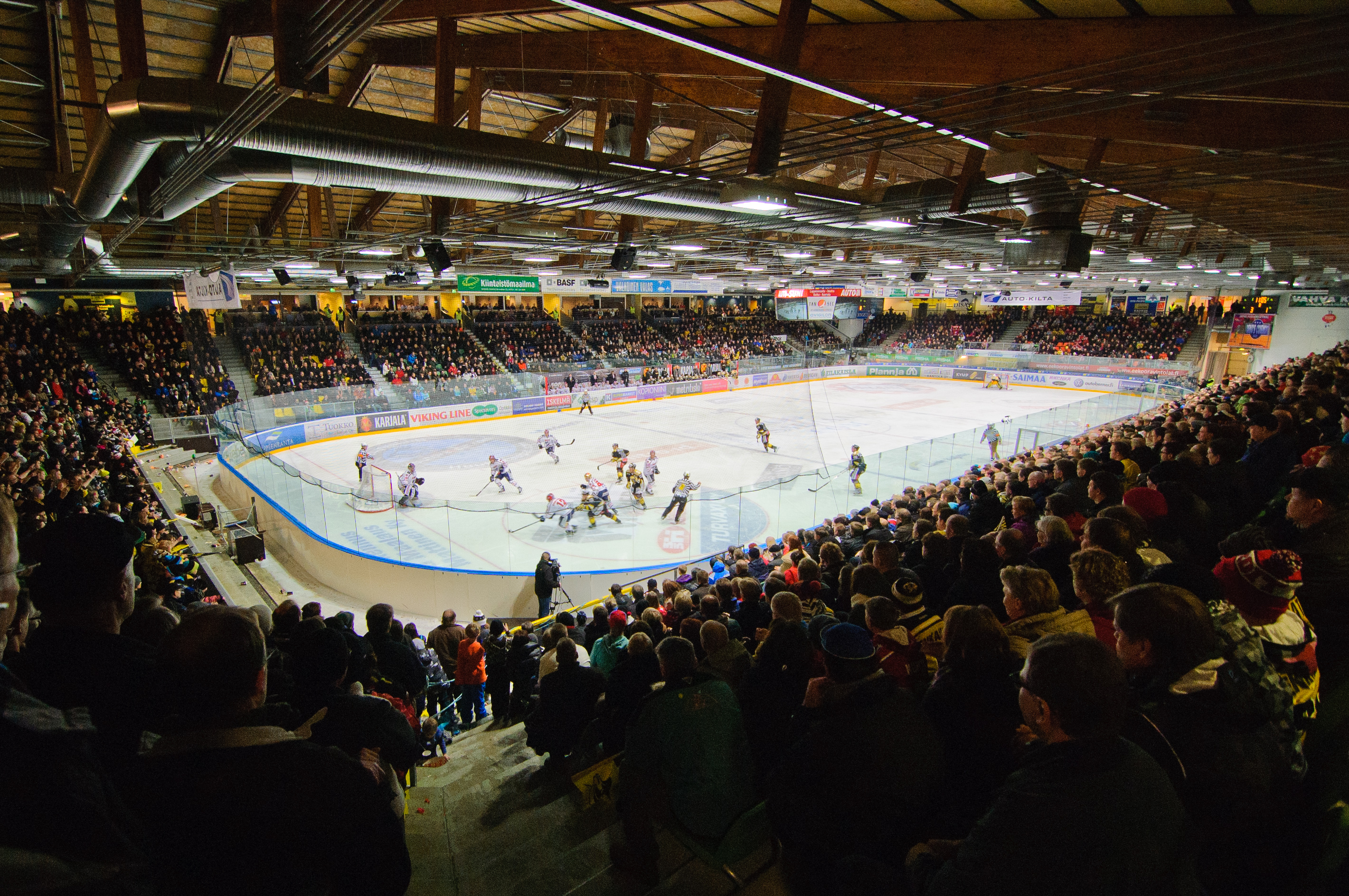 Kisapuisto arena in Lappeenranta, Finland during an SM-Liiga ice hockey game between SaiPa Lappeenranta and IFK Helsinki.